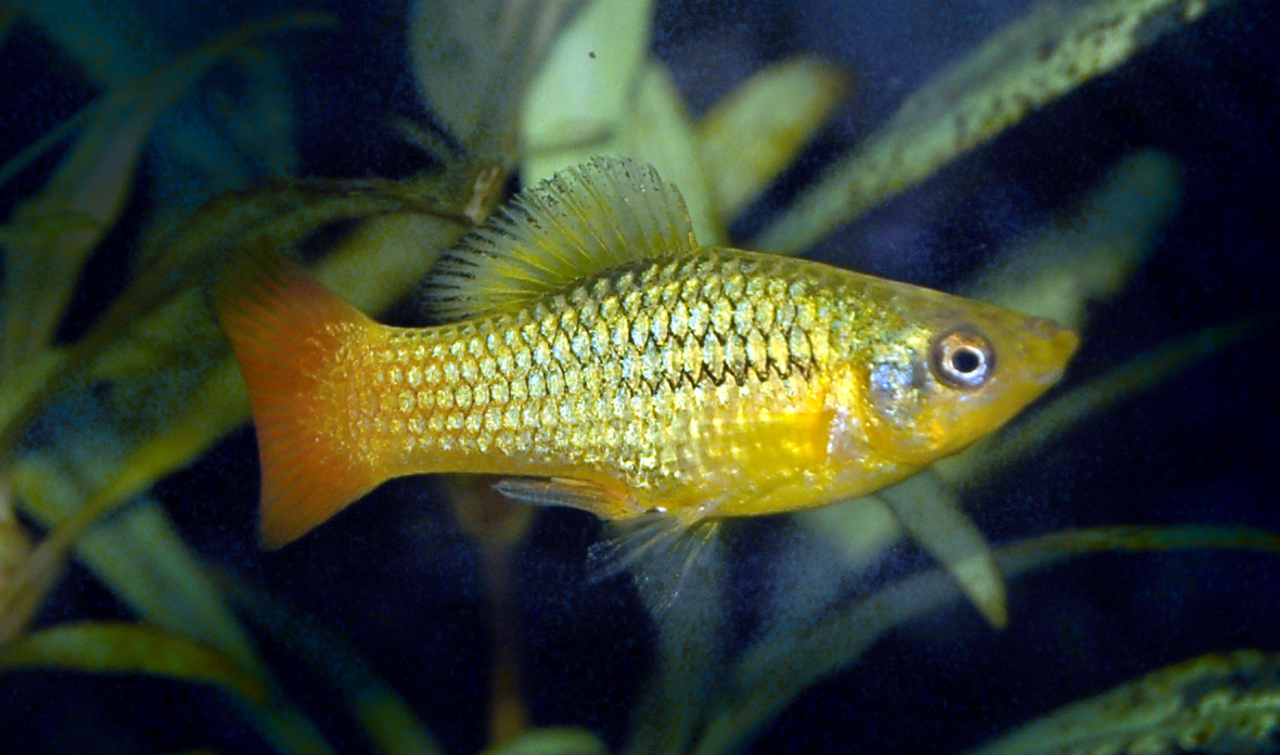 Variatus platy (Xiphophorus variatus), male specimen.